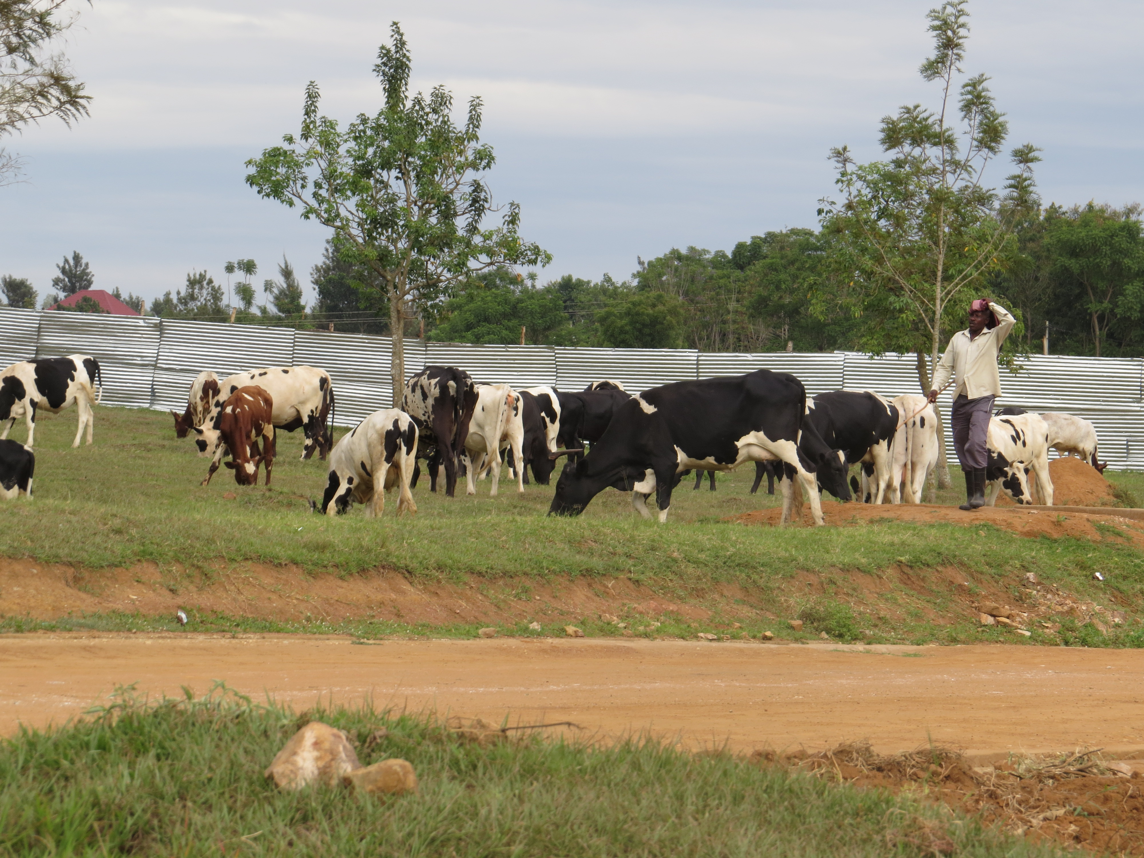 here cows are grazed for the purpose of milk collection and even getting money when the sell milk .